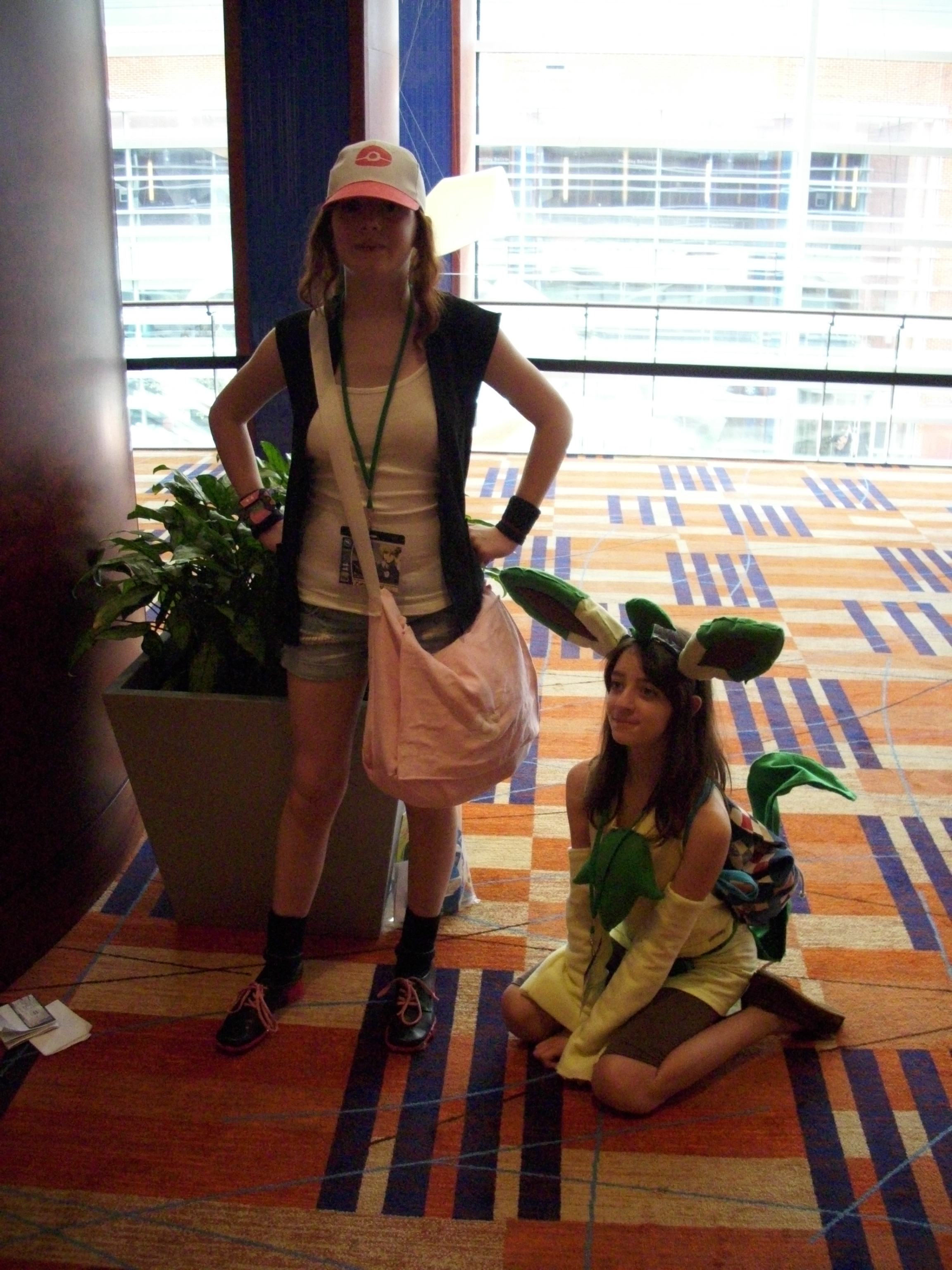 Touko from Pokemon Black and White along with a Pokemon that I don't know. Bonus points to whoever gets it. \o Ludvina et Phylalli.